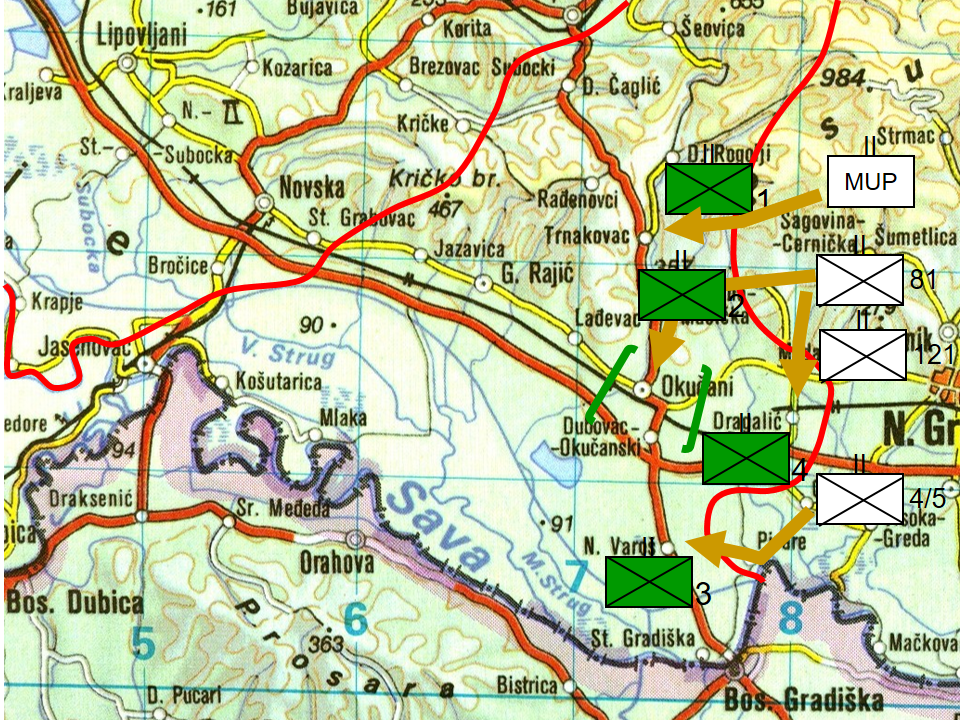 Eje de avance Este. Operación Bljesak State Fact Findings Commision on the causes and the manner of the causes of the fall of Western Slavonia. Report on the causes of the fall of Western Slavonia. Knin, 11 Jul 95. Documento ICTY 0326-6252-0326-6273/uj.